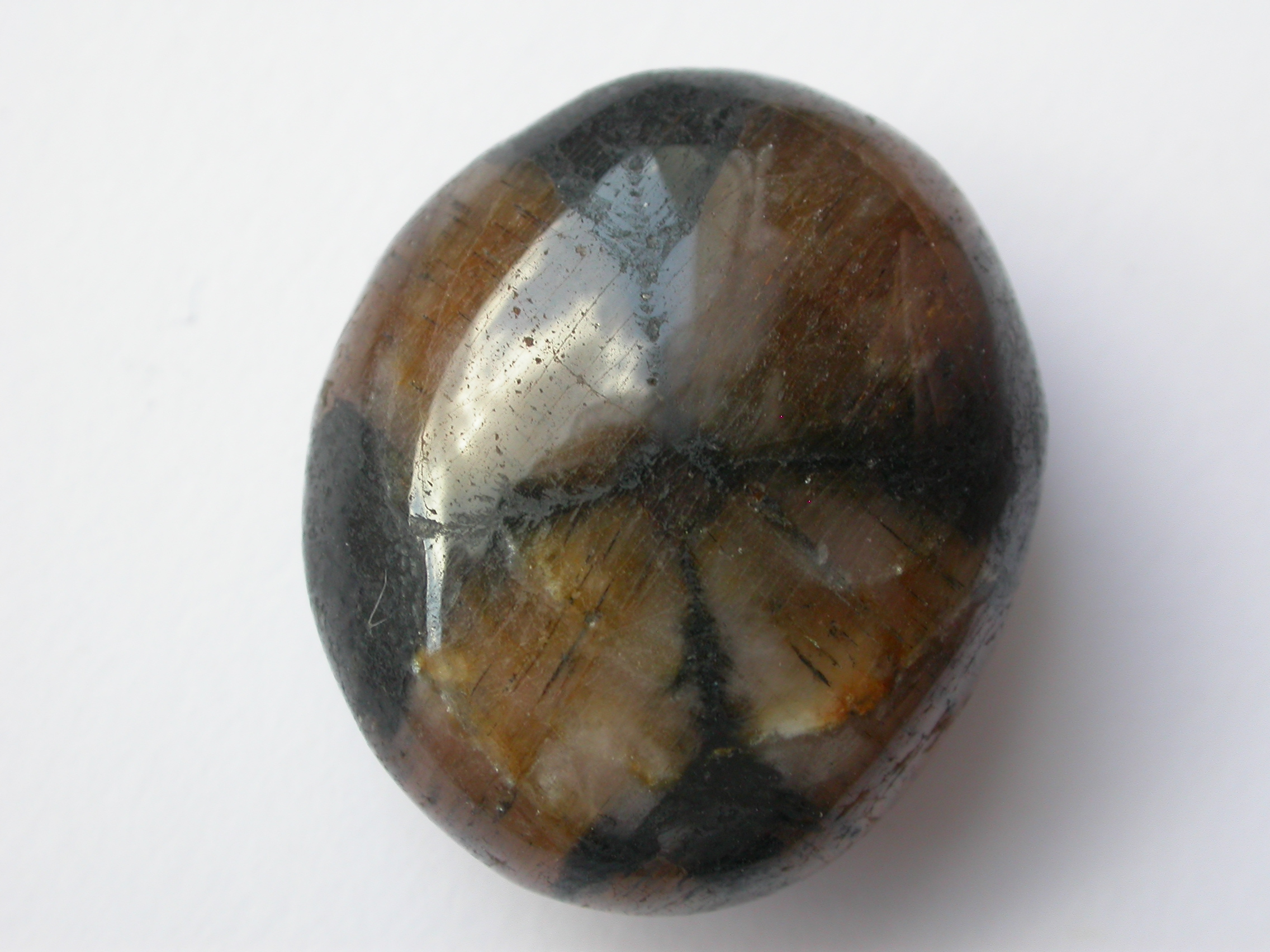 Chiastolite, a varity of Andalusite